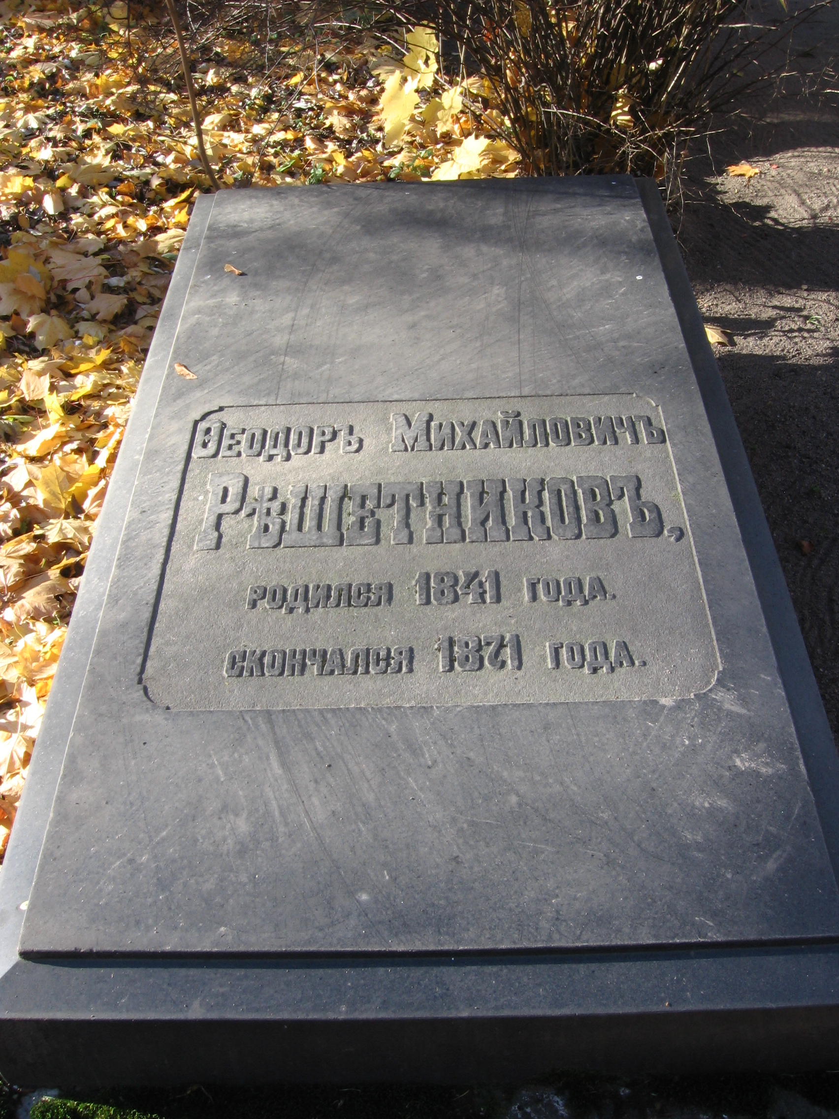 Grave of Fyodor Reshetnikov